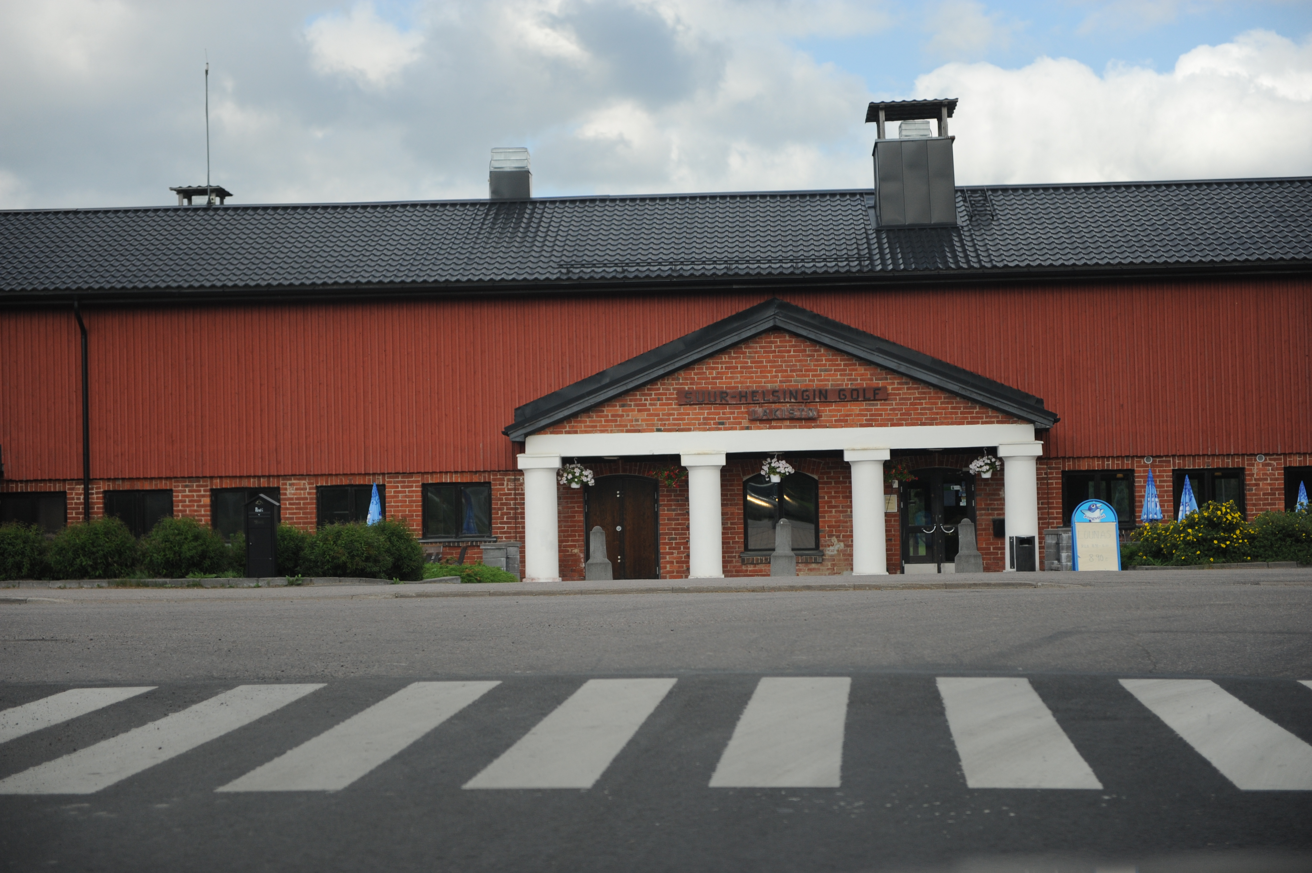 Suur-Helsingin Golf, Lakisto